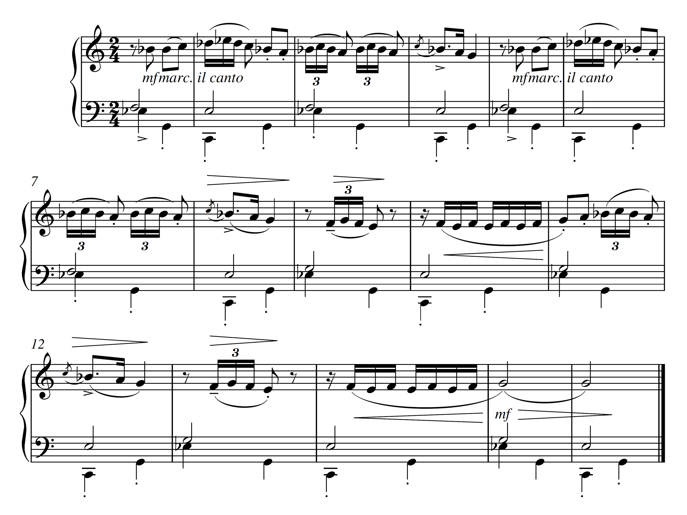 The main theme of Manuel de Falla's Ritual Fire Dance